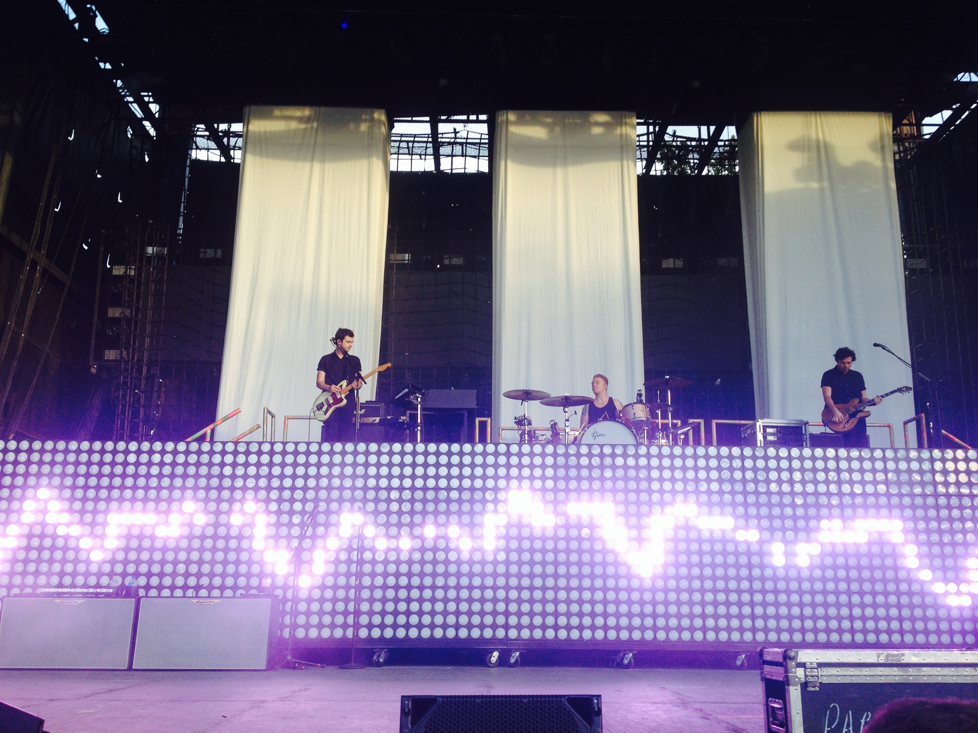 Musicians Justin York, Jon Howard and Aaron Gillespie live in concert along Paramore during Monumentour